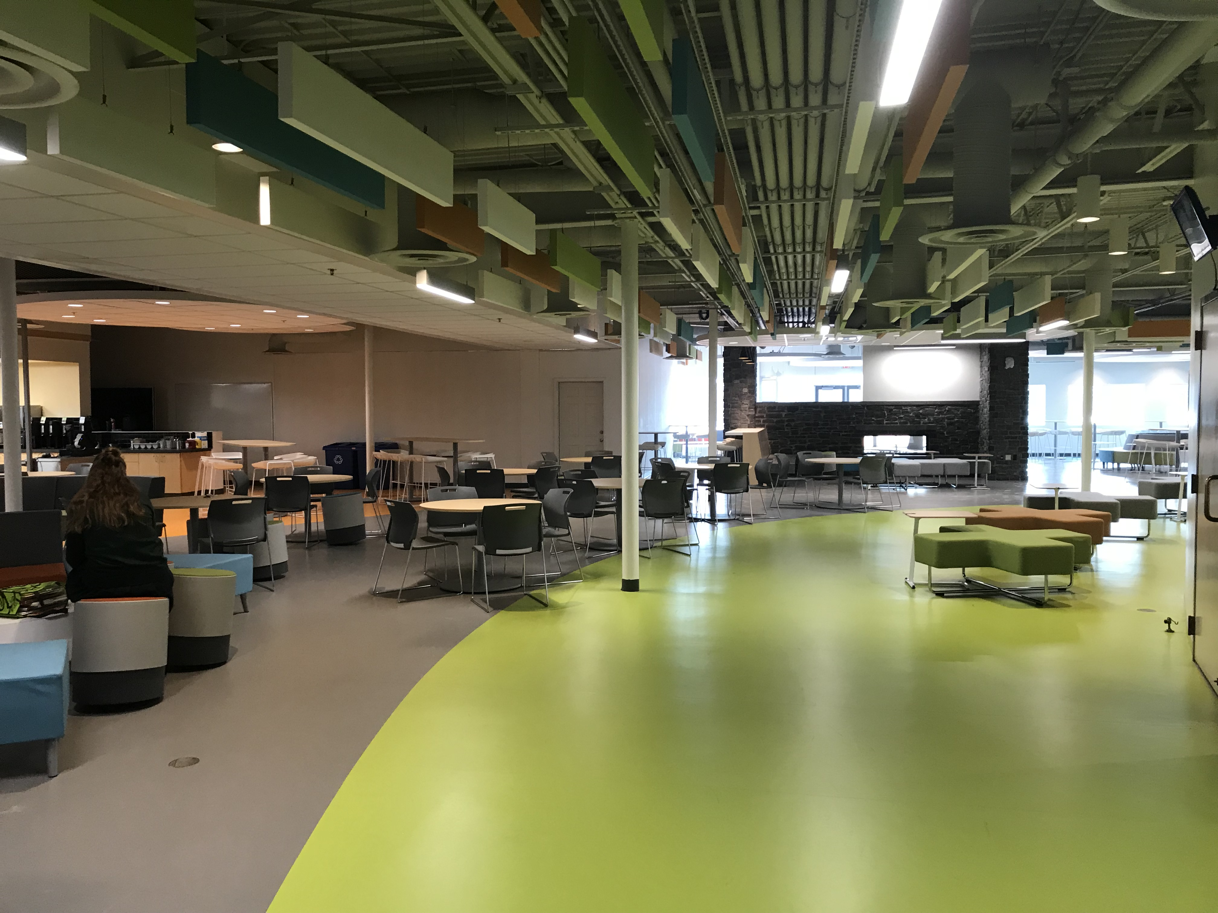 Strathcona-Tweedsmuir School new cafeteria.